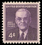 1960 stamp honoring John Foster Dulles